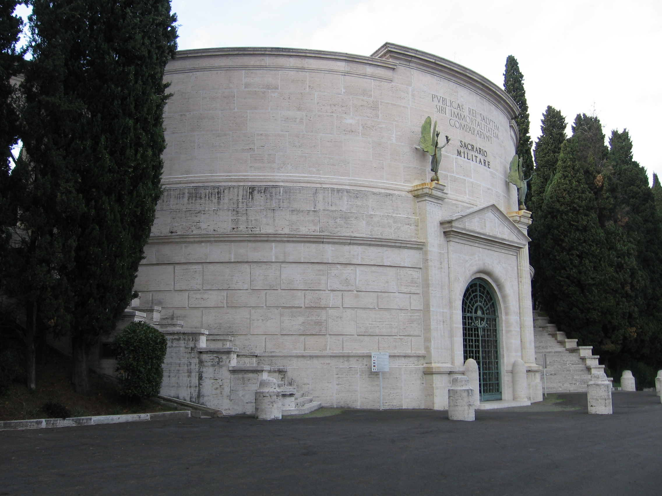 Monument to the fallen of the great war in the Verano Cemetery (Rome). Author: Raffaele de Vico.